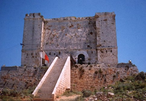 St Mary's Tower on Comino (Malta), built 1618